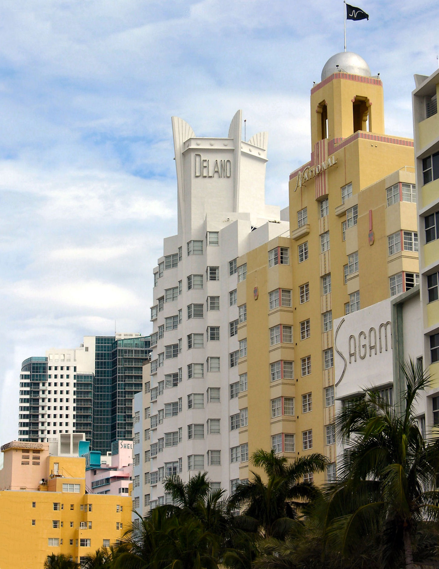 Delano, National and Sagamore hotel fronts on Collins Ave. - Miami Beach